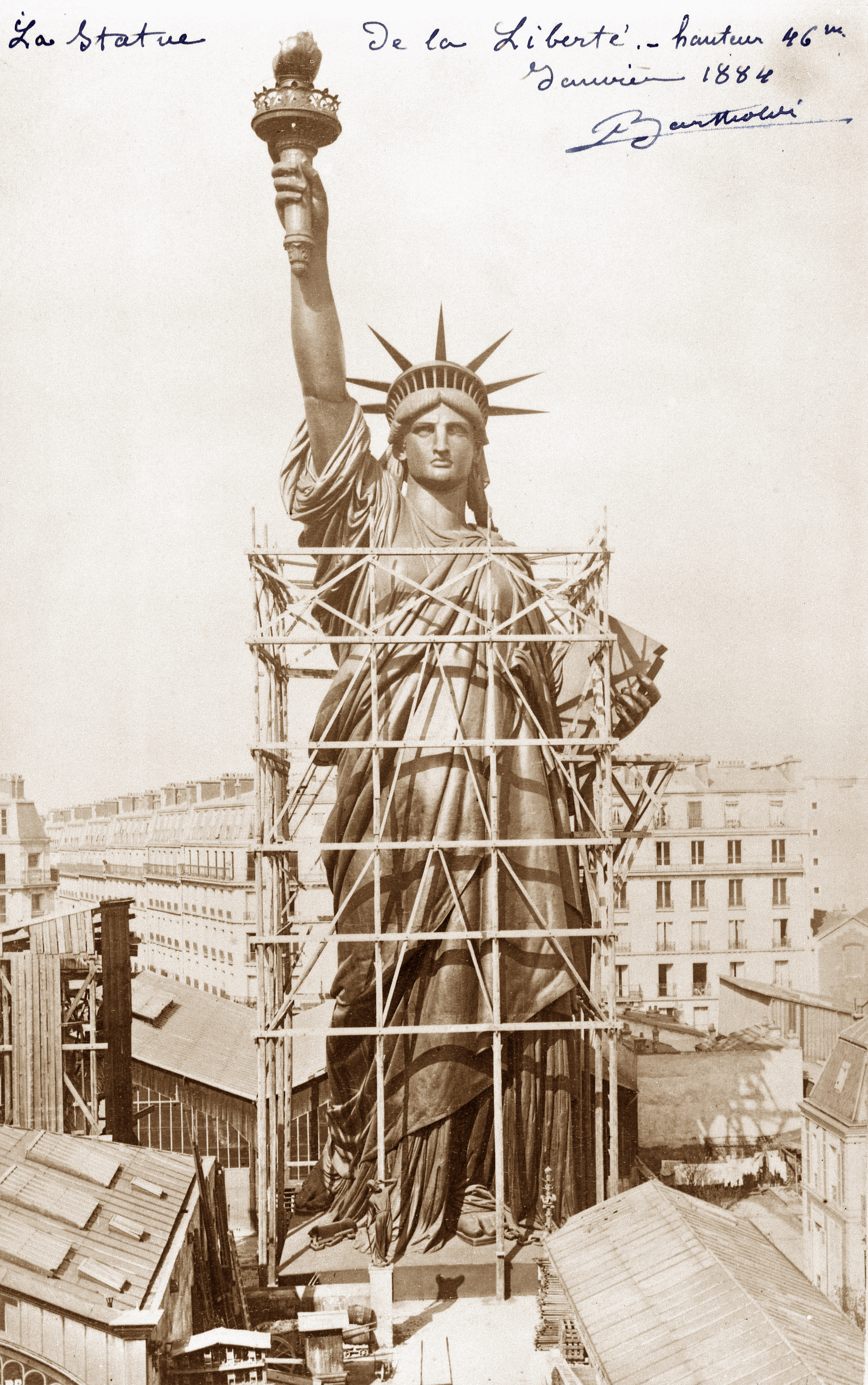 Liberty Statue, work in progress.